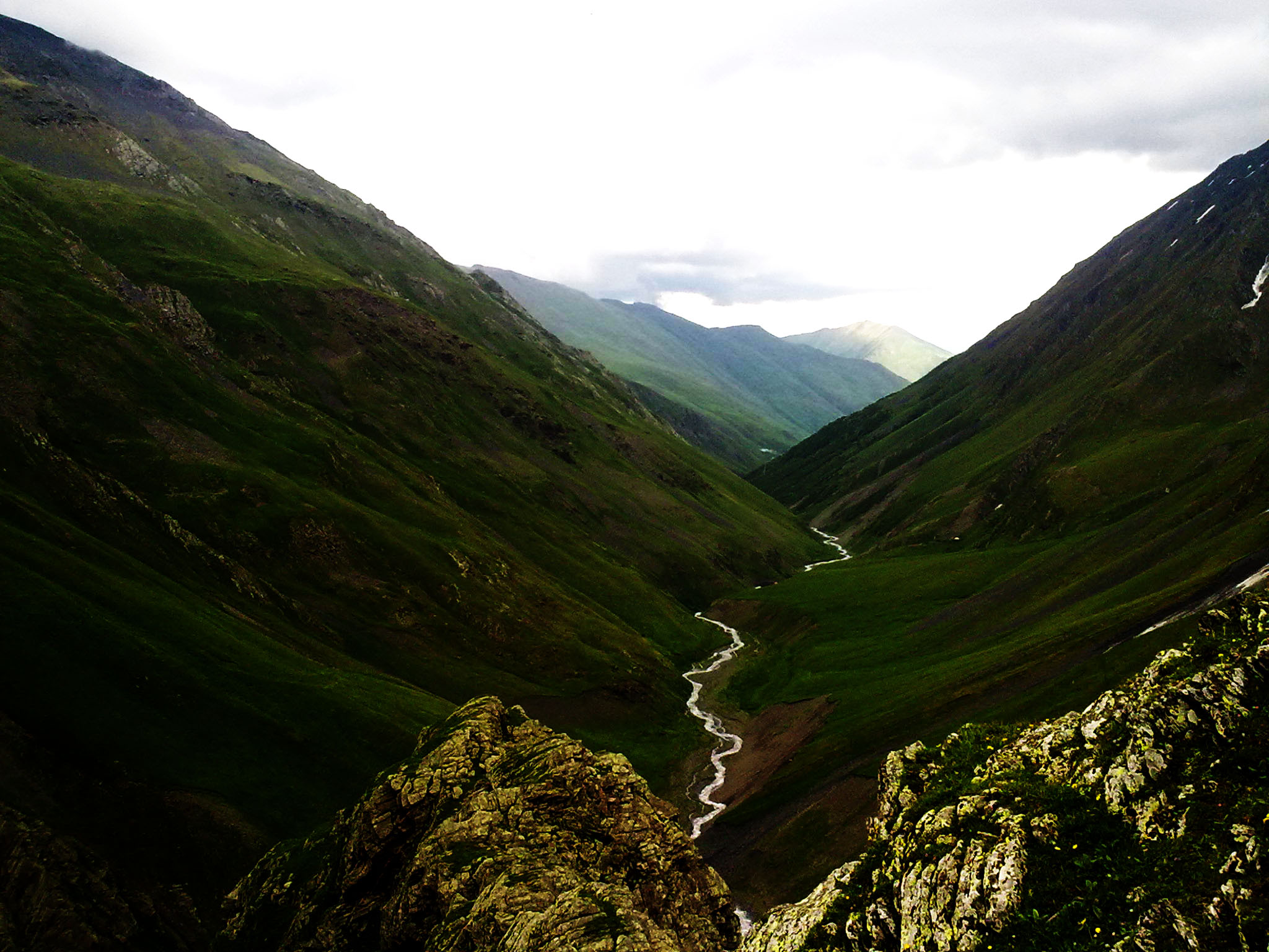 Sharoargun river in Chechnya